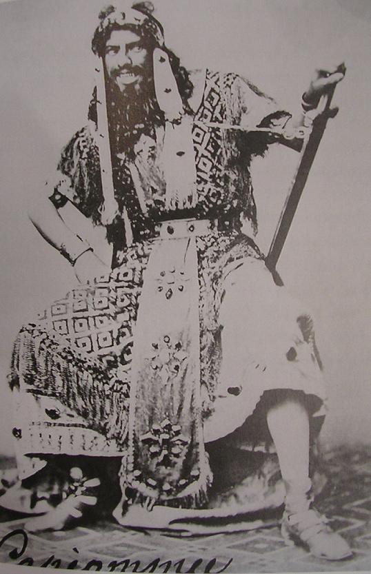 Portrait of Russian opera singer Mikhail Sariotti (1830-1878) as Olofern in opera "Judith" by A. Serov